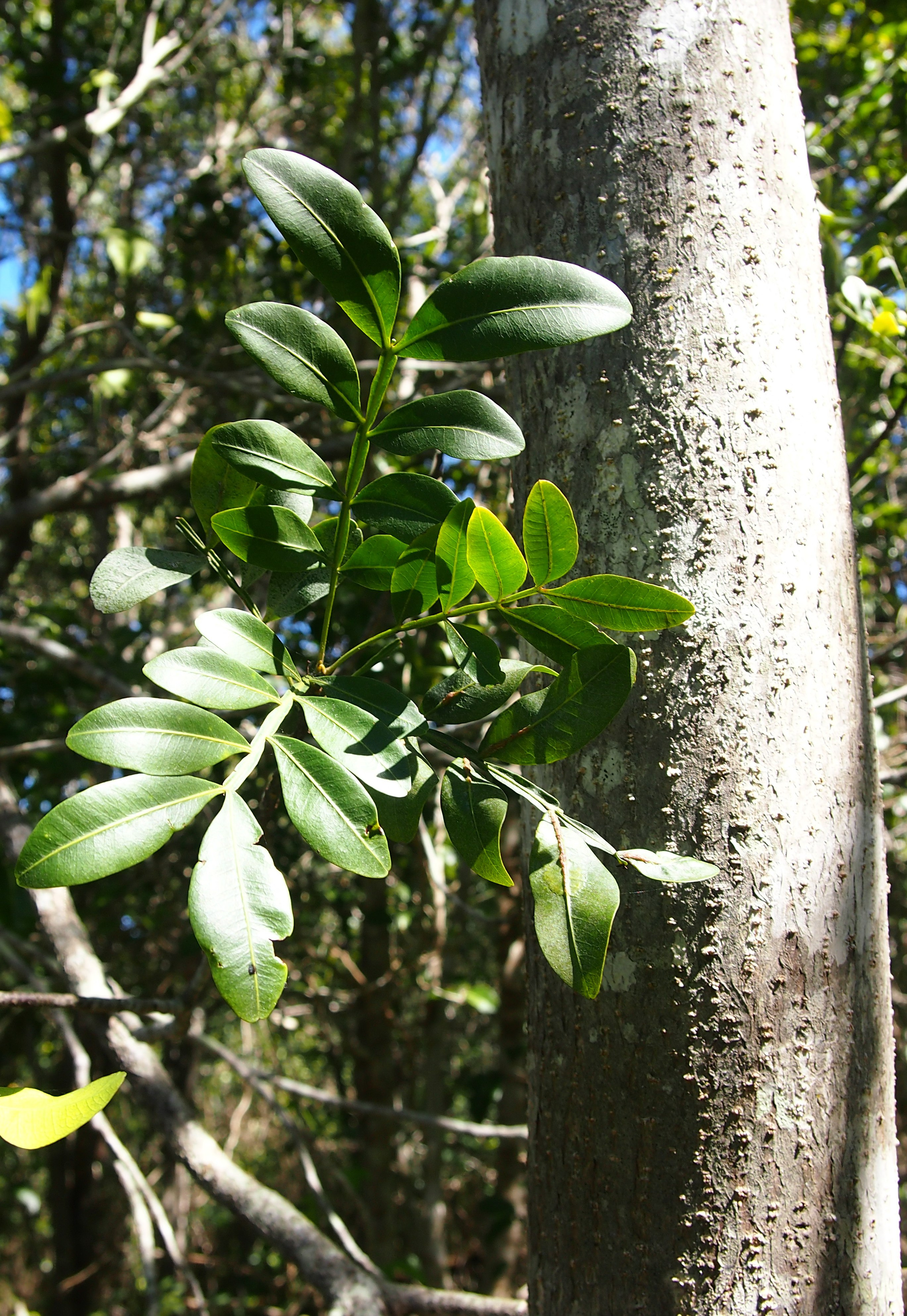 Atalaya salicifolia trunk and leaves. The leaves of smaller trees of this species have the distinct winged rachis seen in this image. In larger trees the rachis becomes increasingly cylindrical